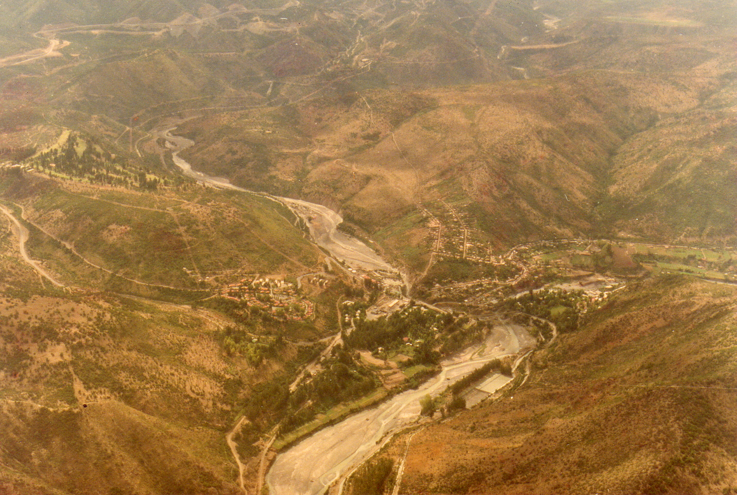 Coya, Chile.